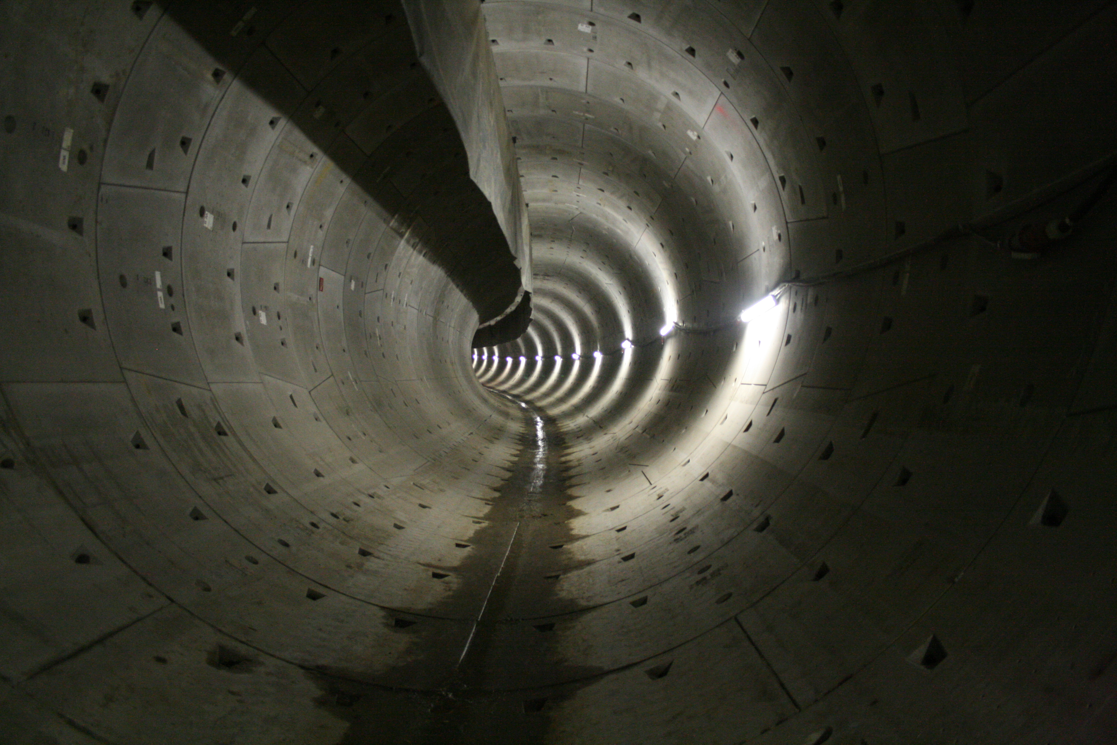 De Oostbuis van de Amsterdamse Noord/Zuidlijn ter hoogte van de kademuur van het Damrak